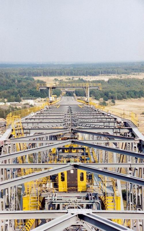 Overburden Conveyor Bridge F60 in full length from its highest point.